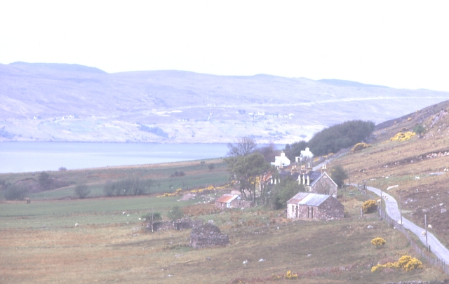 Badrallach. Badrallach is at the end of the road on the north shore of Little Loch Broom. The main road on the south side can be seen in the background.